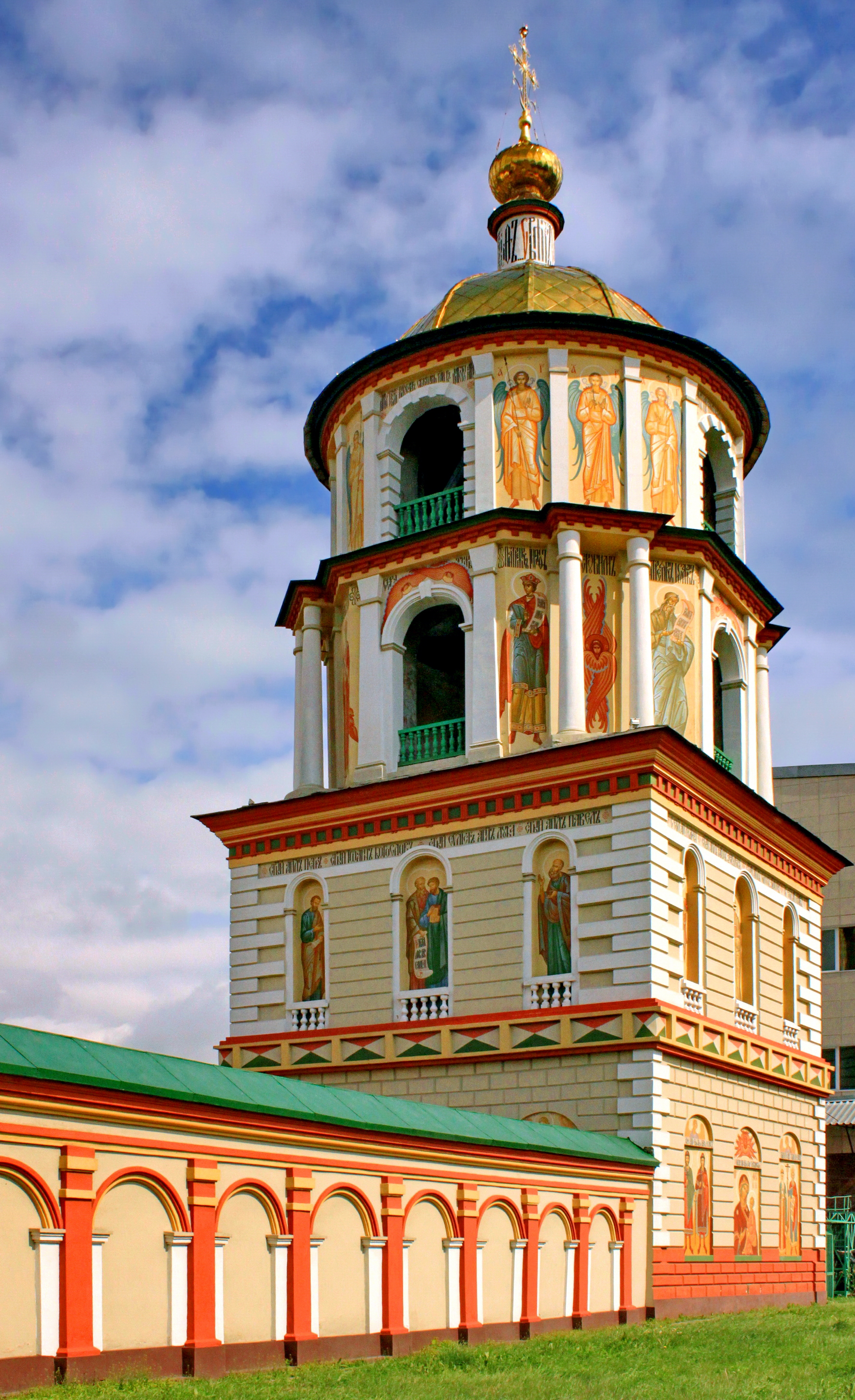 Church of the Epiphany. Irkutsk, Russia.